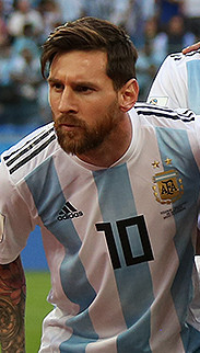 Argentina vs Nigeria match